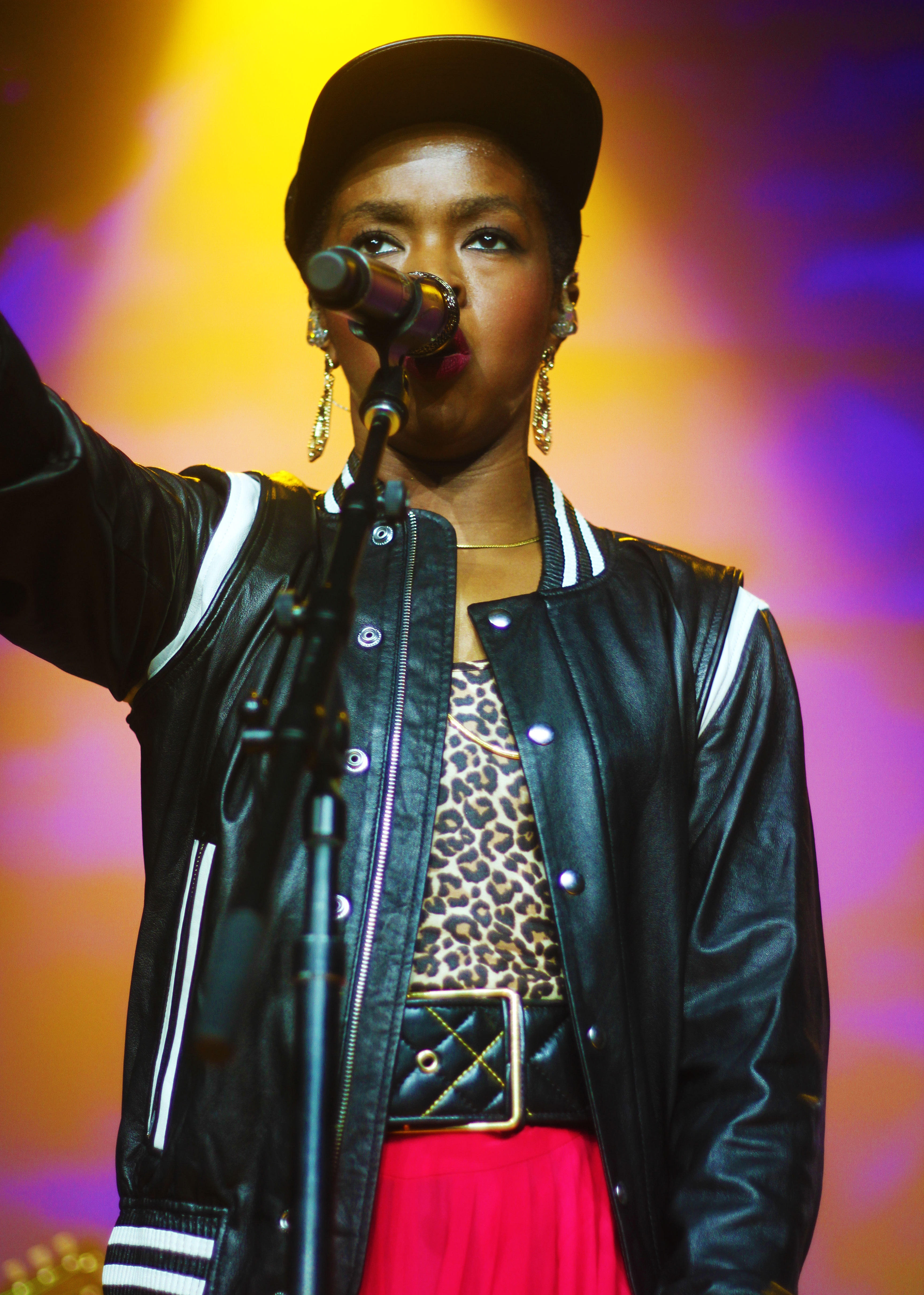 Lauryn Hill June 21, 2014 @ Sound Academy (Toronto)